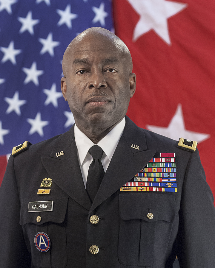 Official Photo